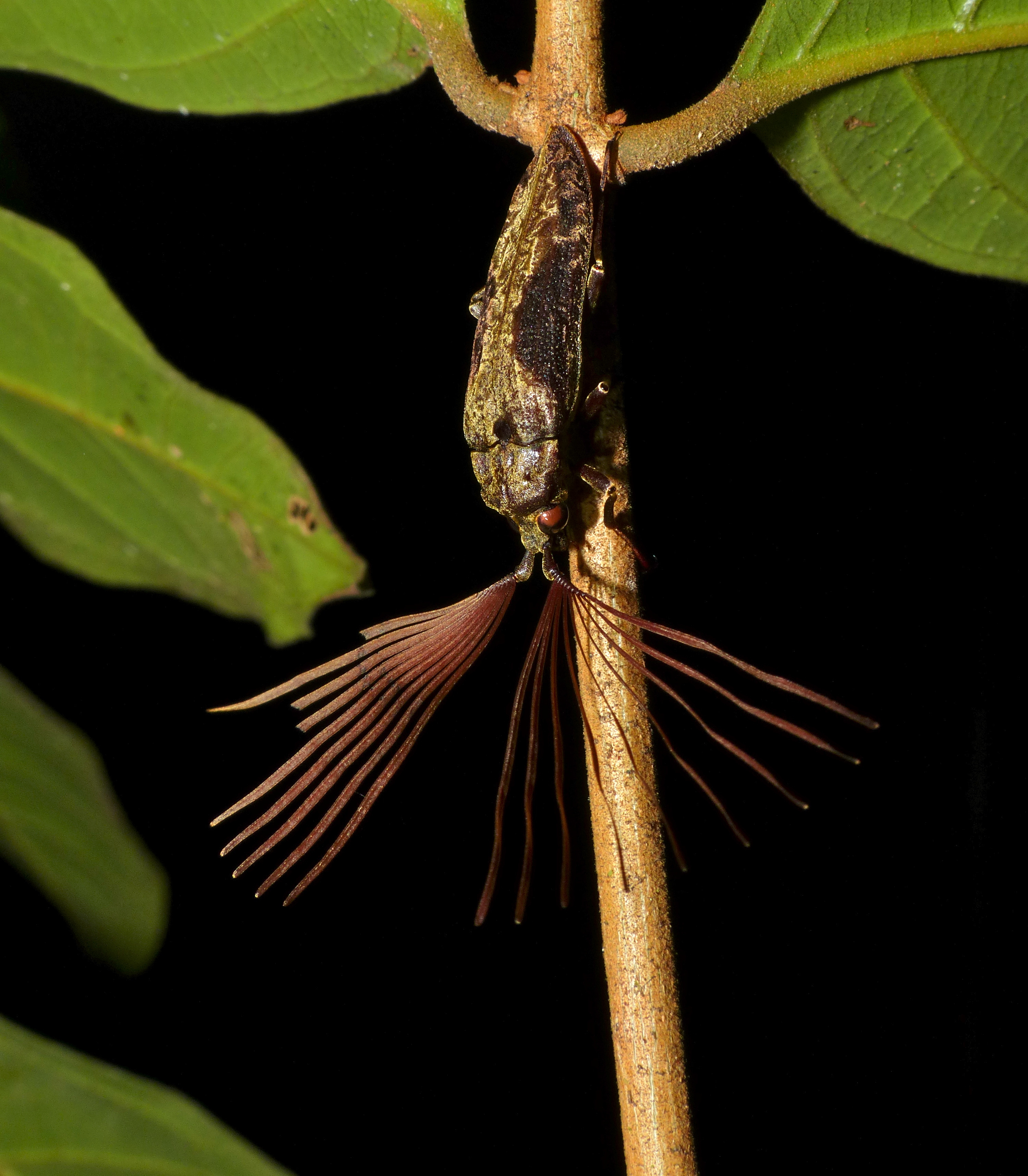 Callirhipis sp., Night Walk Trail, Mulu NP, Sarawak, MALAYSIA